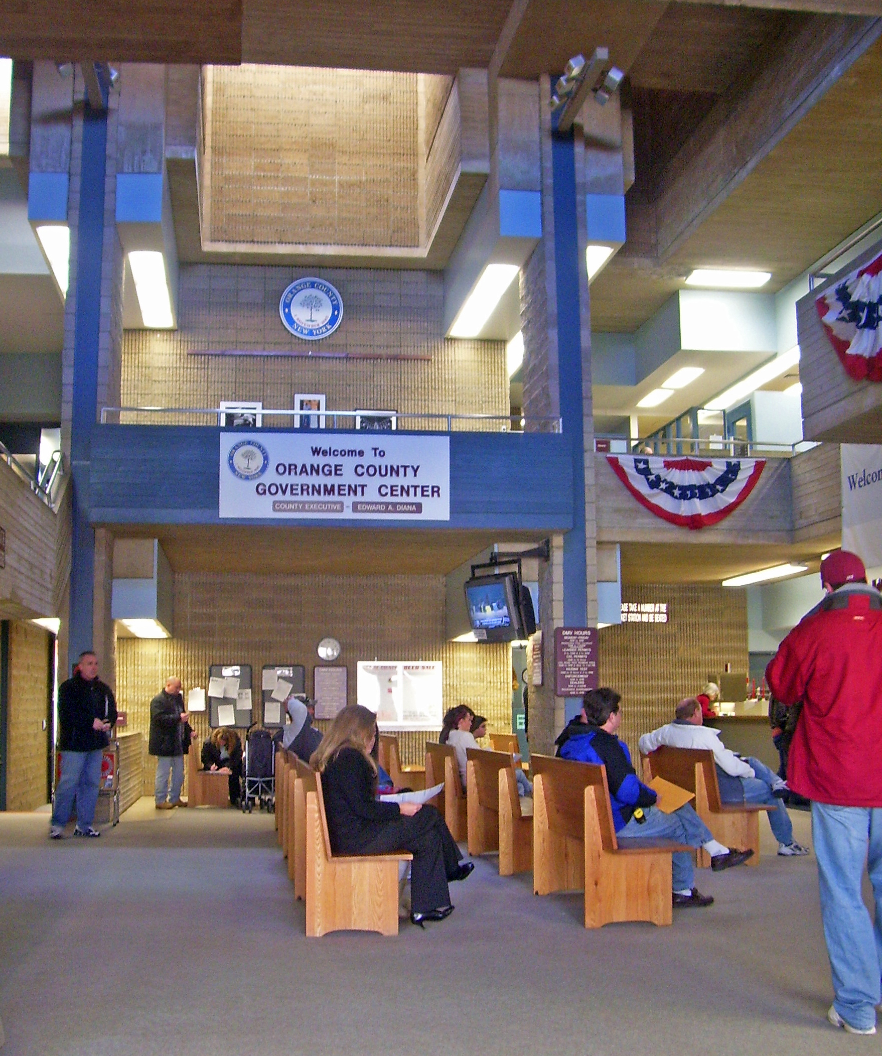 Interior atrium of Orange County Government Center